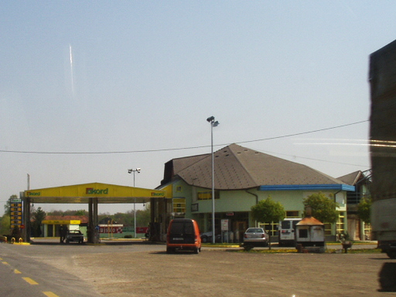 Greda - Petrol Station